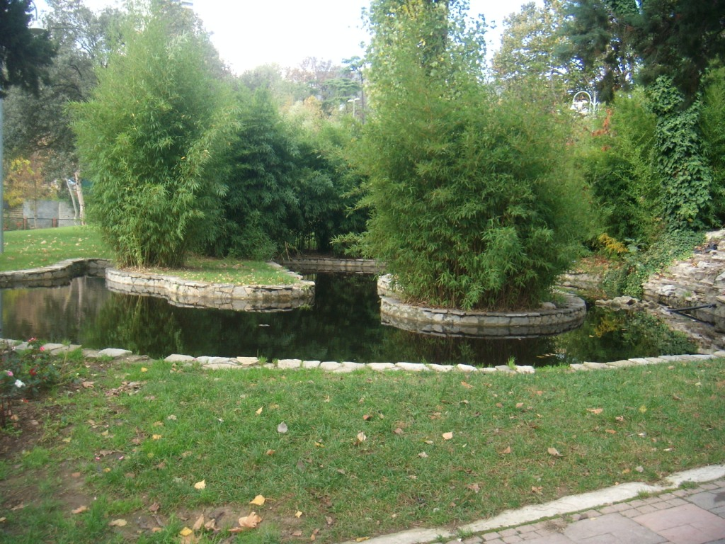 Maçka Park in Istanbul, Turkey.